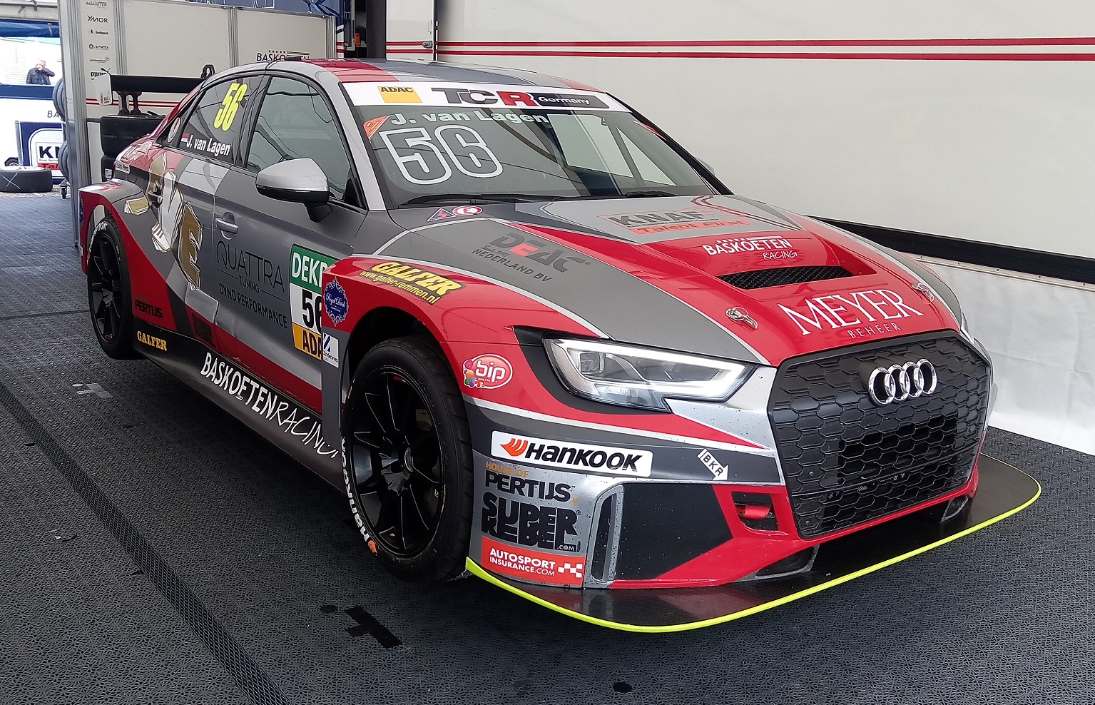 Jaap van Lagen at the 2017 ADAC TCR Germany Championship round at Zandvoort.